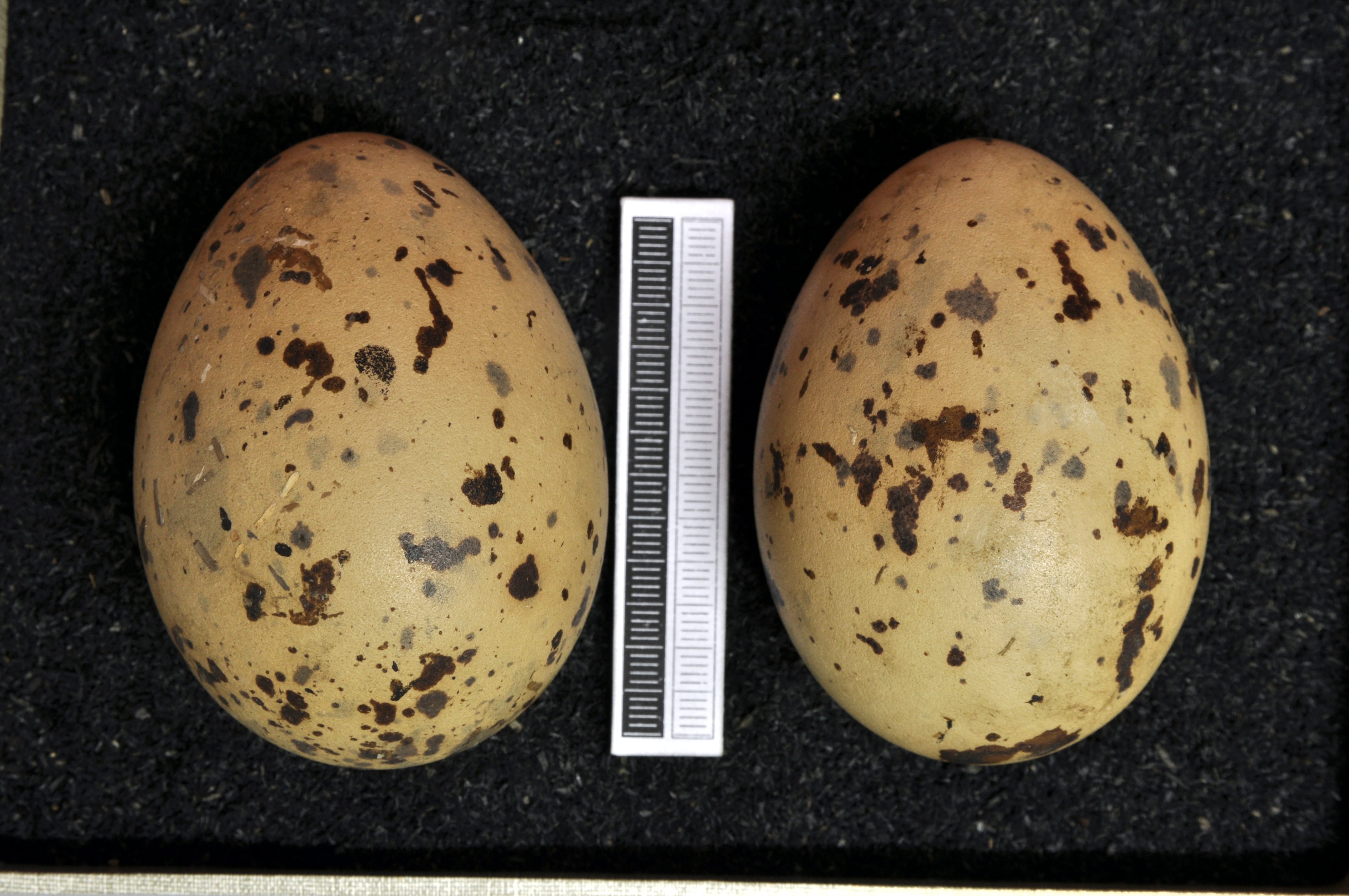 Caspian gull Larus cachinnans , egg, Coll. Museum Wiesbaden